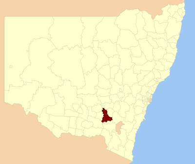 Boundaries of Gundagai Council formed 2016